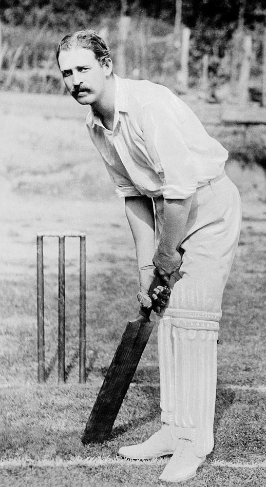 Digby Loder Armroid Jephson, Surrey county cricket club, circa 1902.